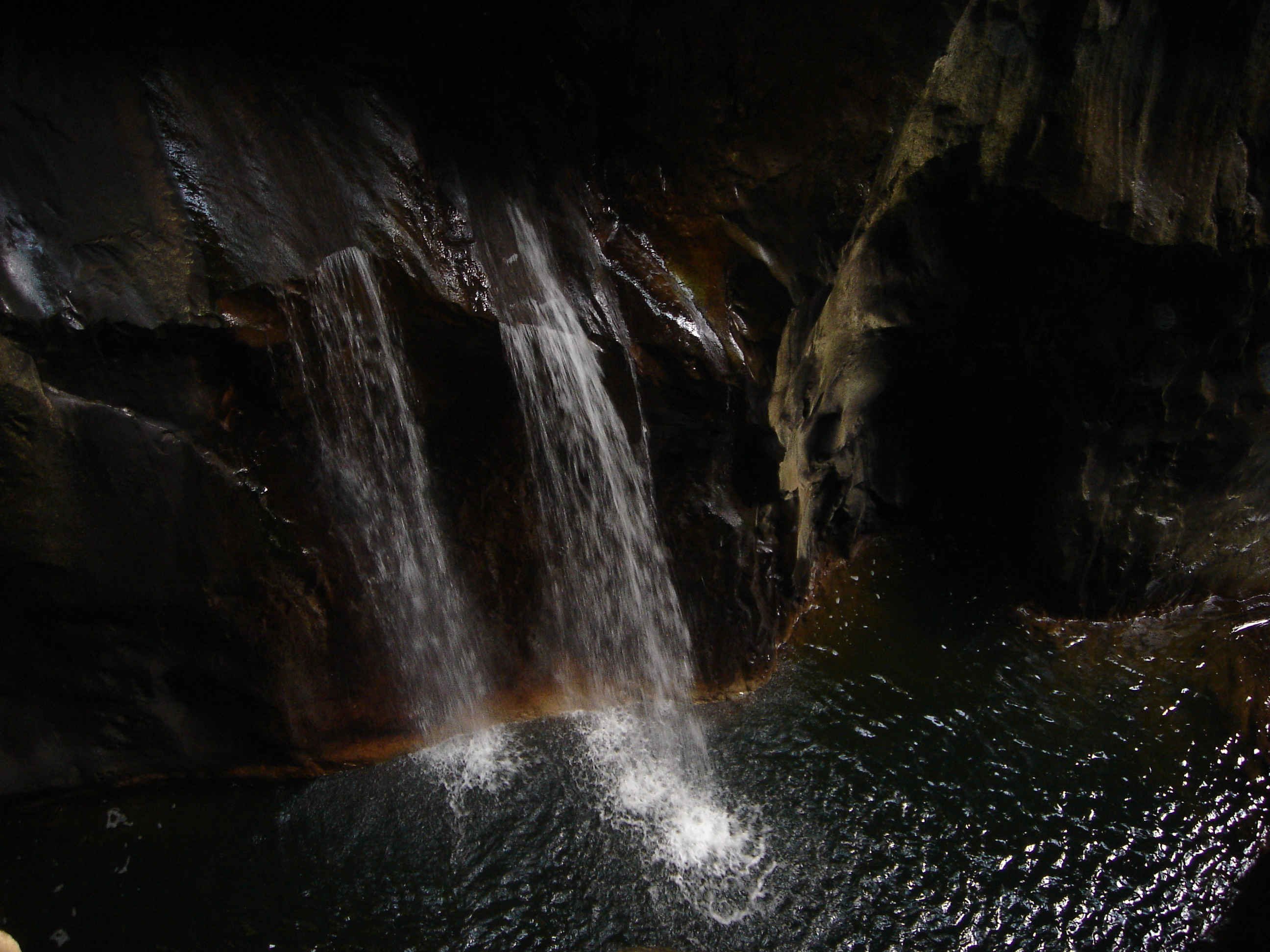 Škocjan Caves (Slovenia)